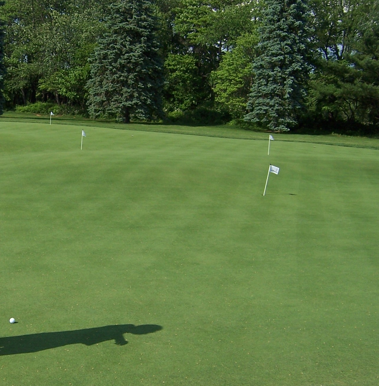 A portion of the Pynes Putting Course at the USGA Museum in Far Hills, New Jersey